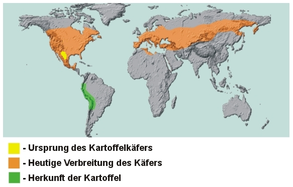 Kartoffelkäfer, Colorado potato beetle, Verbreitung, distribution